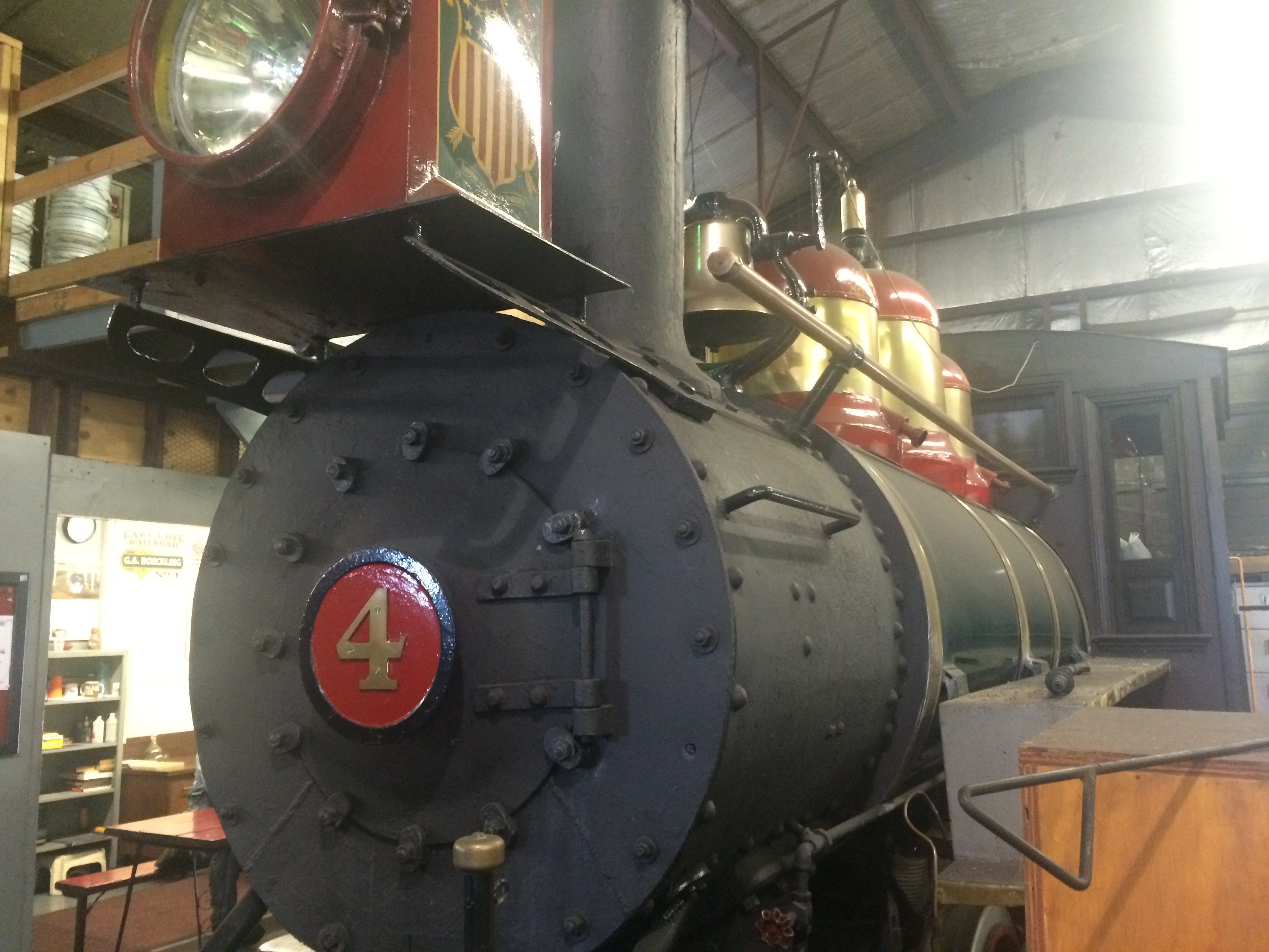 Cedar Point and Lake Erie Rail Road George R steam locomotive